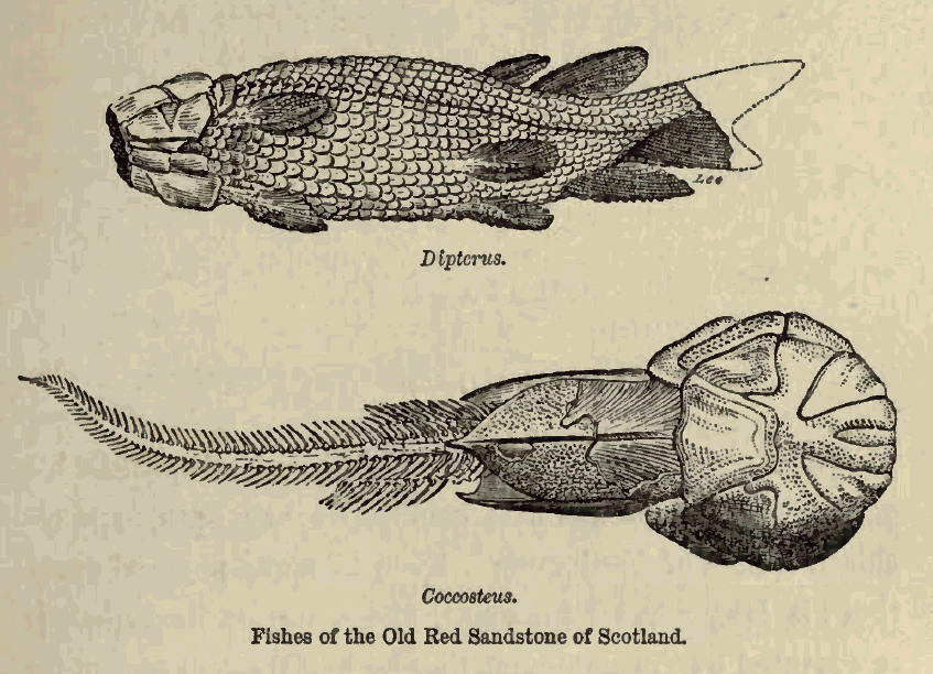 Fishes of the Old Red Sandstone of Scotland